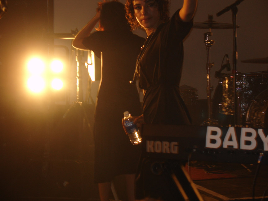 Ladytron concert in Dallas Tx. 20 October 2006 author Георги Петров